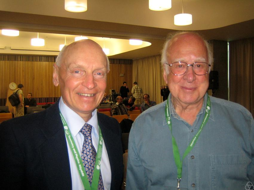 David Wallace (* 1945) and Peter Higgs (* 1929)